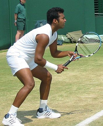 Leander Paes in Wimbledon 2007